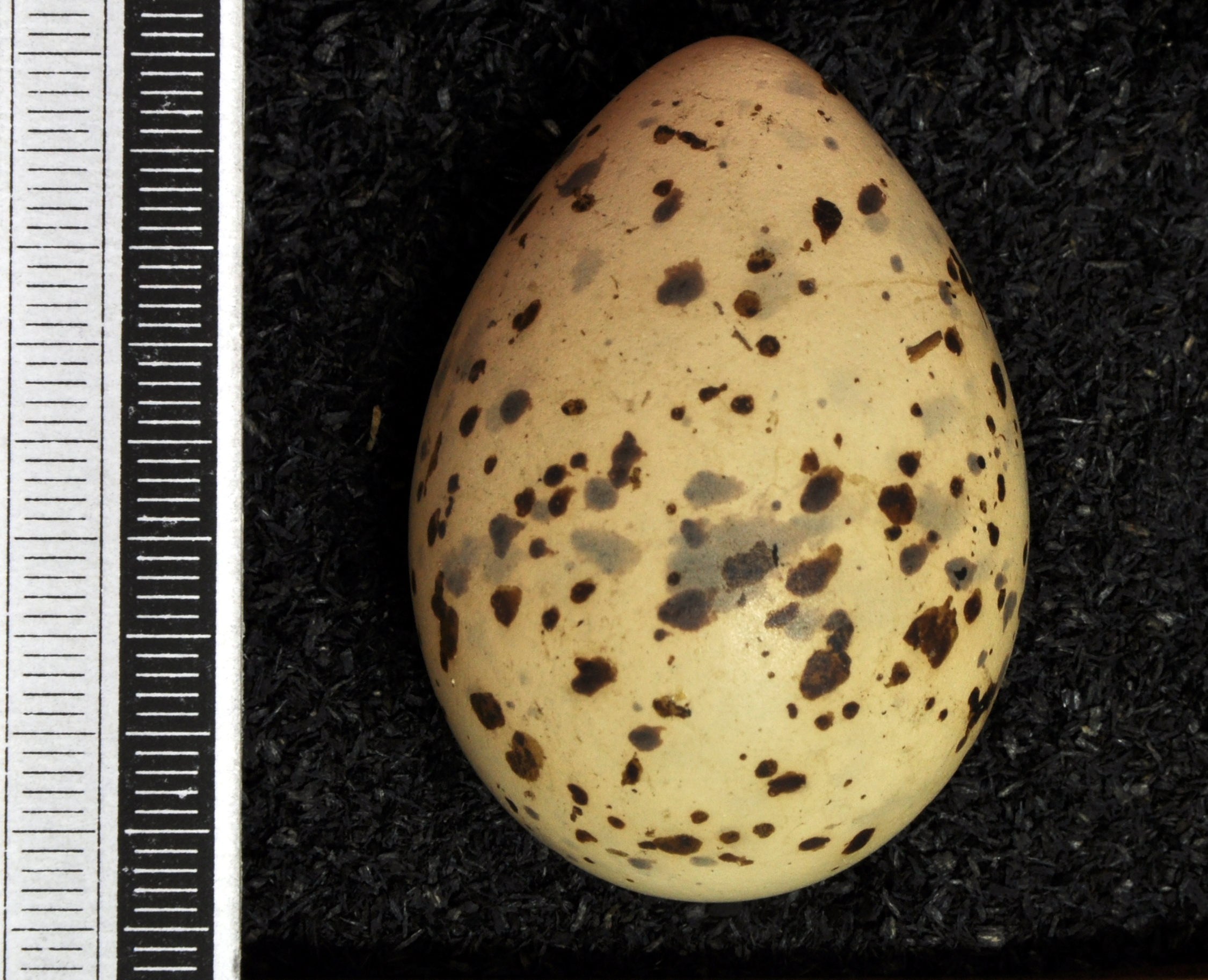 Common tern Sterna hirundo , egg, Coll. Museum Wiesbaden